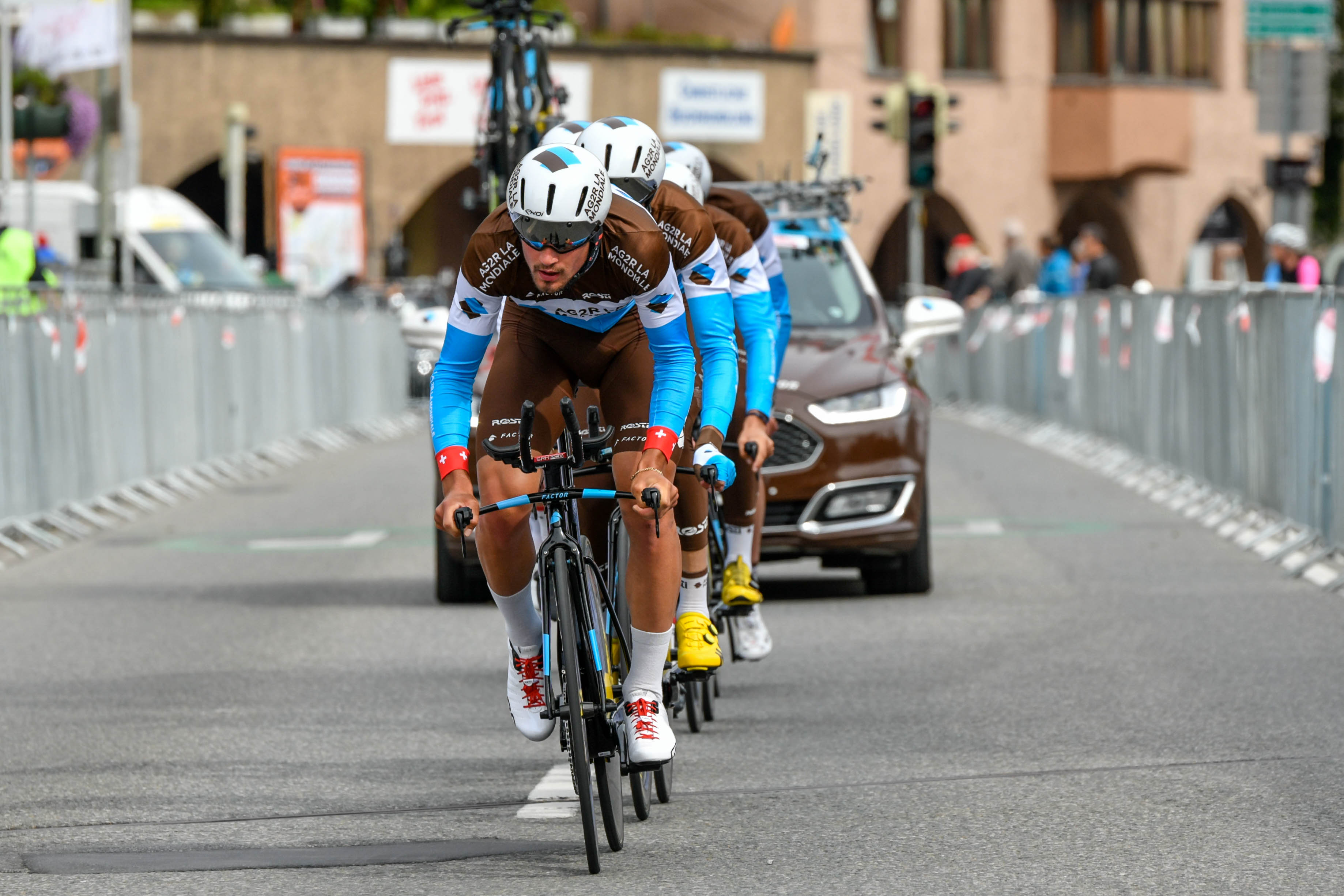 2018 UCI Road World Championships Innsbruck/Tirol Training Team Time Trial. Picture shows: Team AG2R La Mondiale